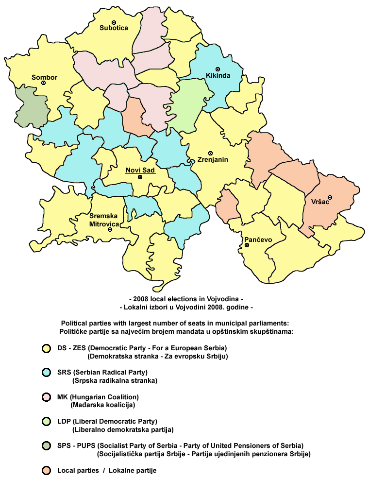 Election map of Vojvodina from 2008 - results of local elections.